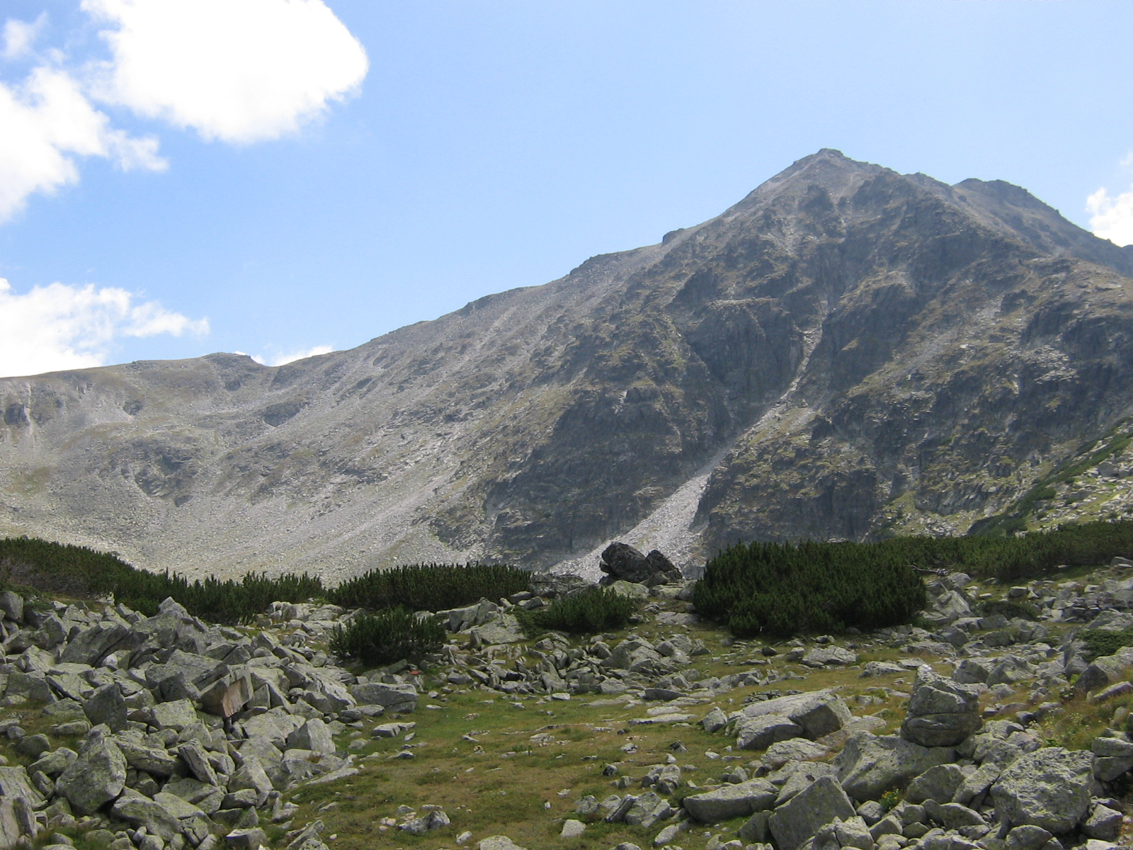 Peak Musala, Rila National Park